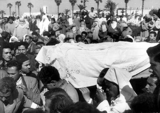 Historical photographs of Moroccan women.